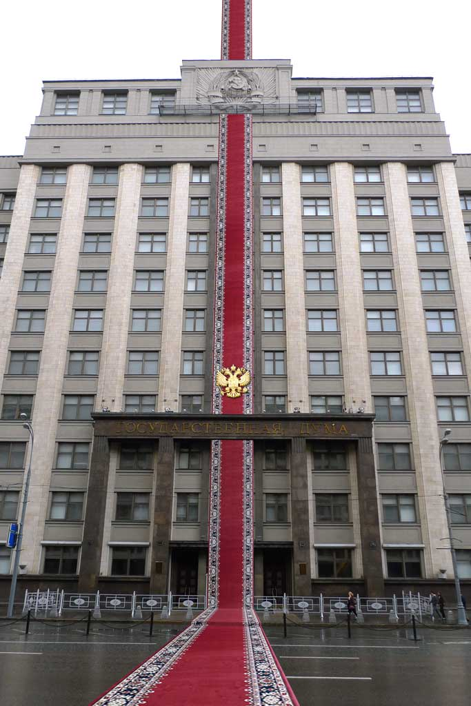 Contemporary art installation by Alexey Kuripko at the State Duma building in Moscow. The building was designed and built by architect Arkady Langman between 1934-35).